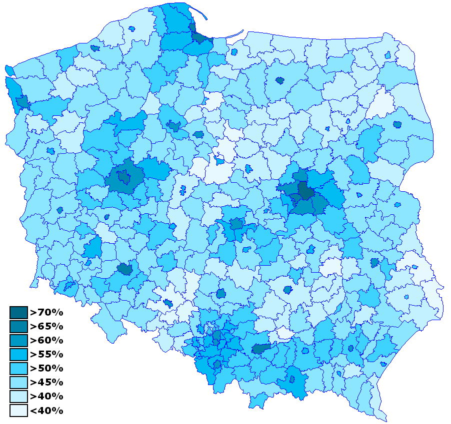 Polish parliamentary election, 2007 - Voter turnout